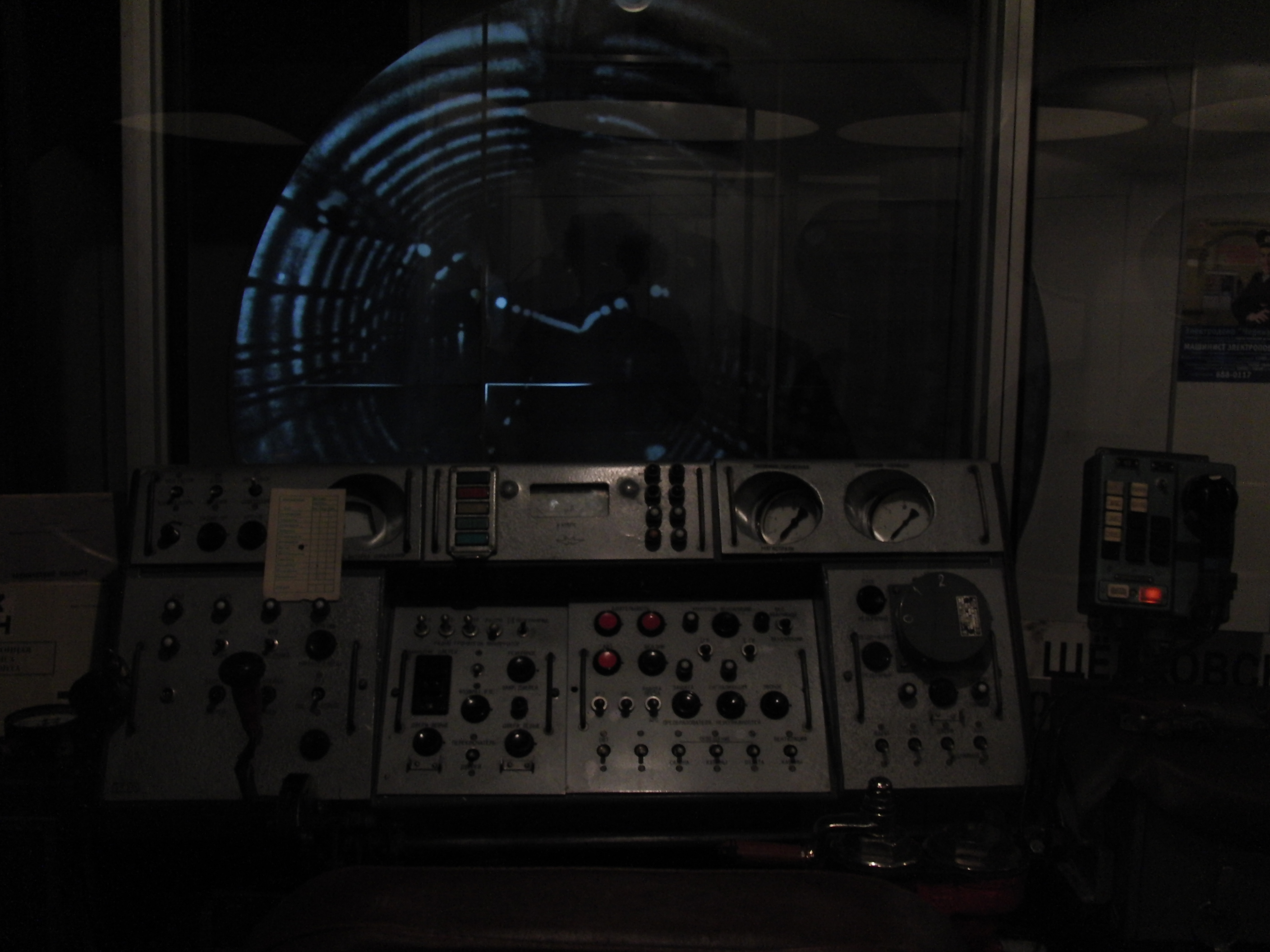 Sportivnaya, People's museum of Moscow Metro